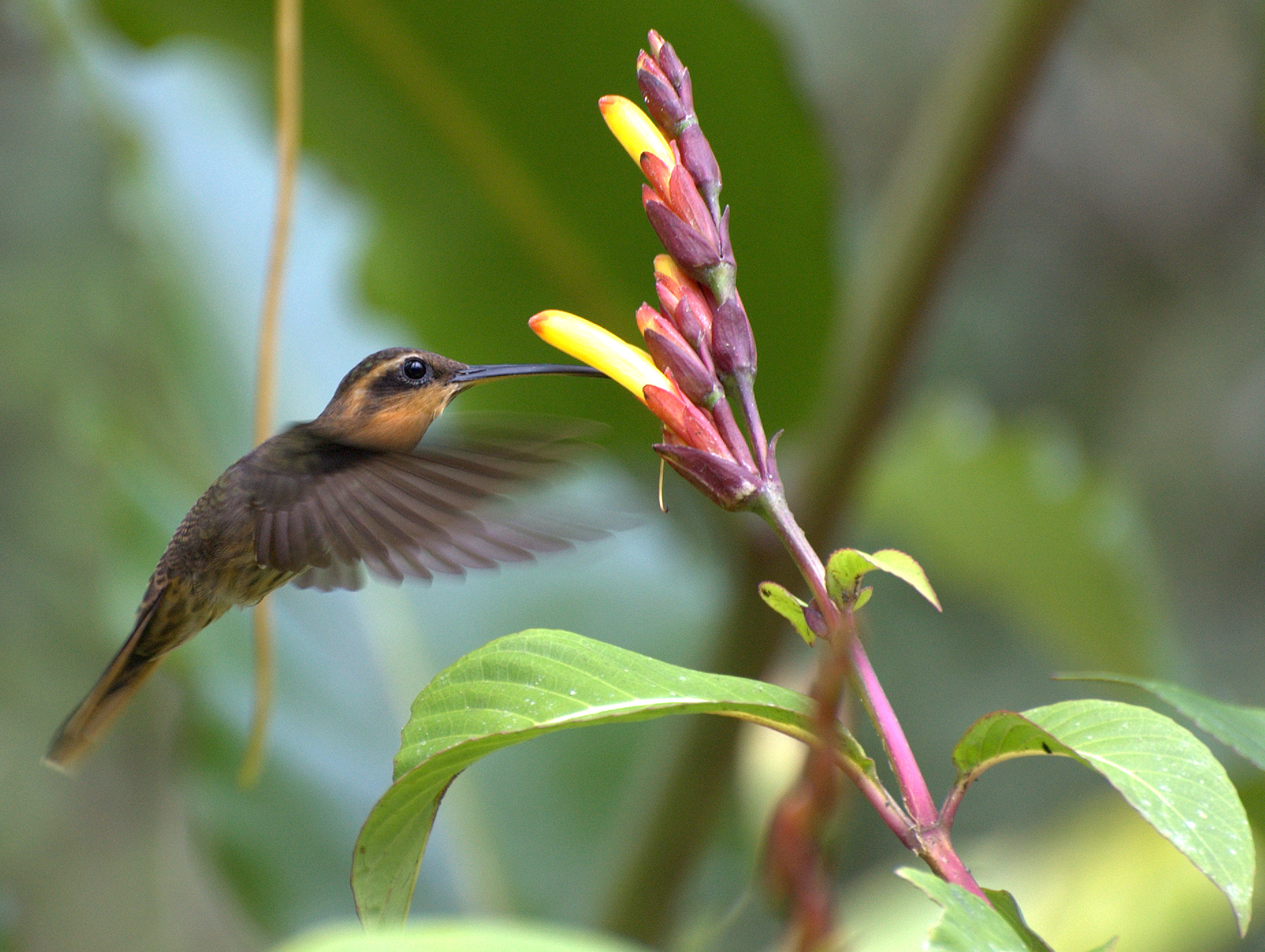 A Saw-billed Hermit (Ramphodon naevius)